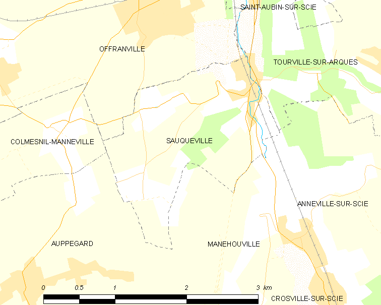 Map of French municipality Sauqueville